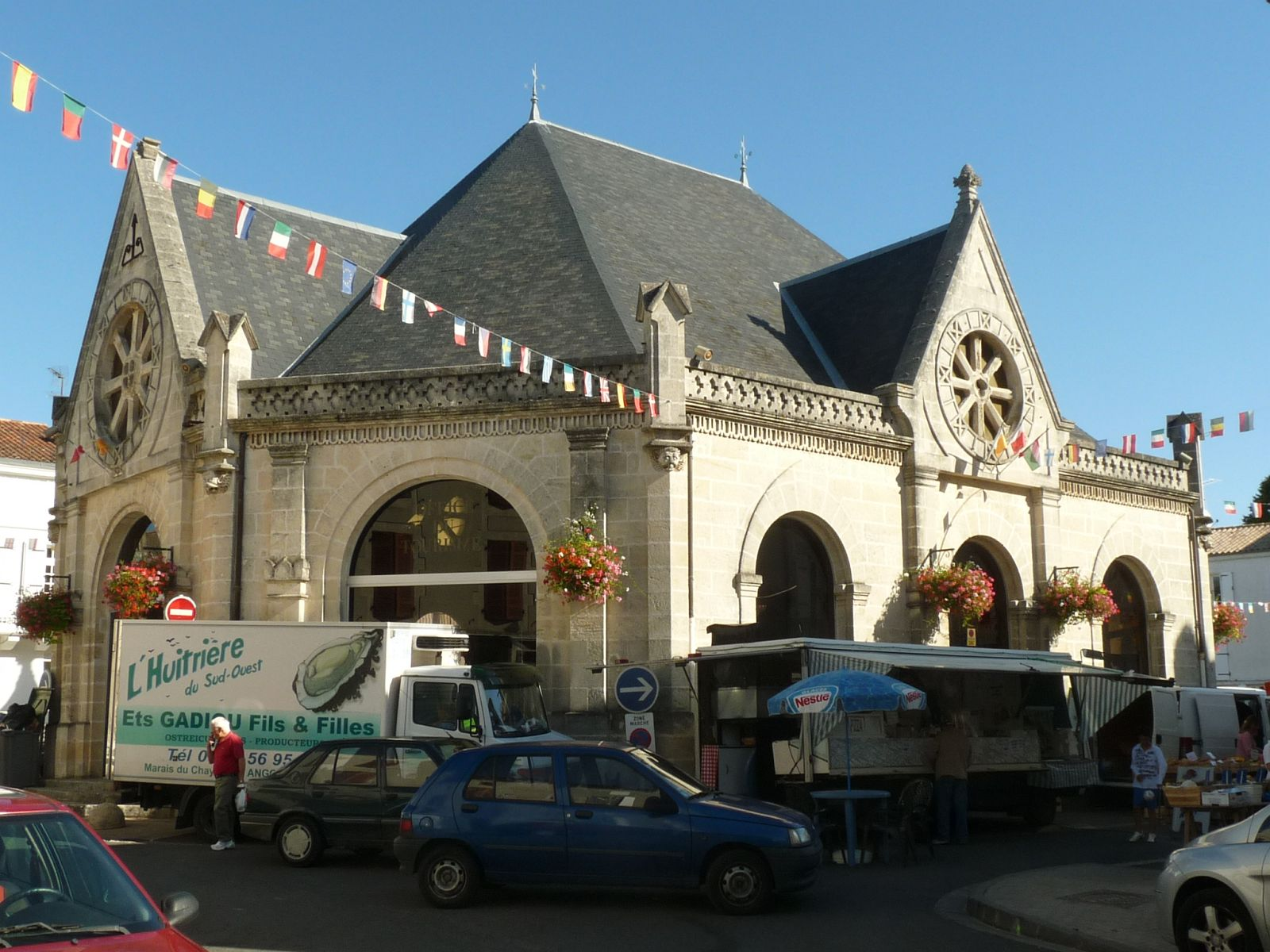 market and hall of Montendre, Charente-Maritime, SW France